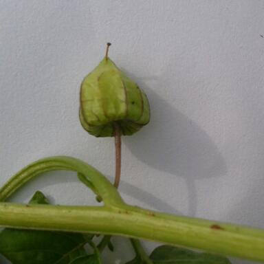 Botanical name - Physalis minima Common names - Native gooseberry; Wild cape gooseberry ;Ground Cherry; Sunberry. Tamil names – Kuvanti ; Kupanti Ayurvedic name - Chirpoti Ripe berry is sweet .Plant is known for its analgesic action;Studies say tha the plant extract has shown anti-inflammatory; Effective for urinary problems ;Fruit has anti cancer property. Picture - Typical bag of Sunberry !